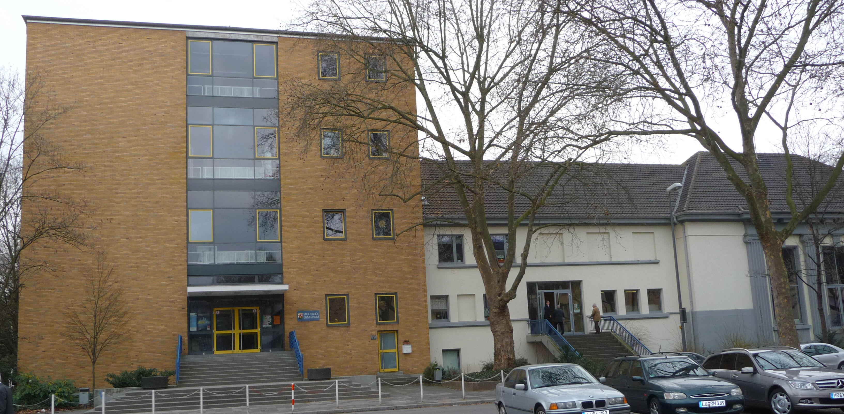 School in Ludwigshafen